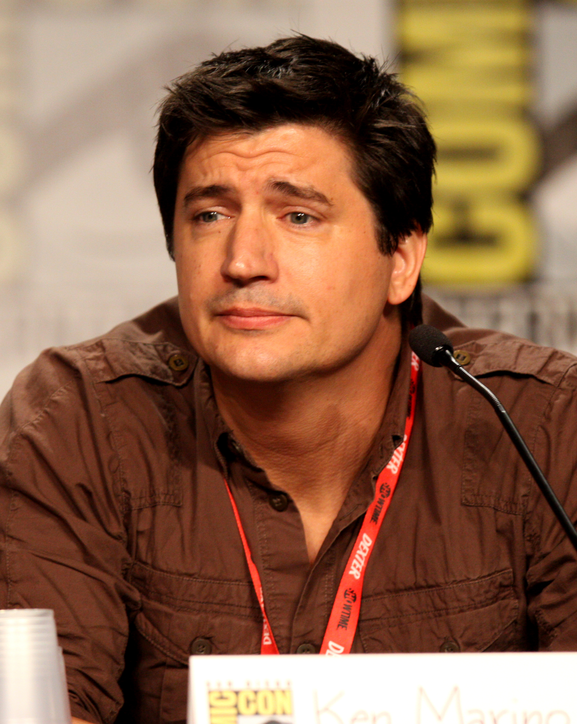 Ken Marino at the 2011 Comic Con in San Diego